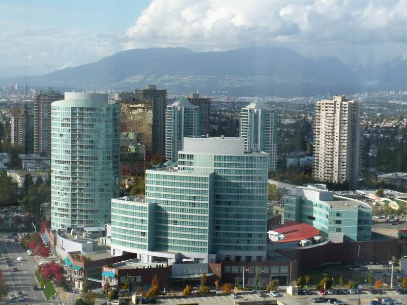 The Crystal